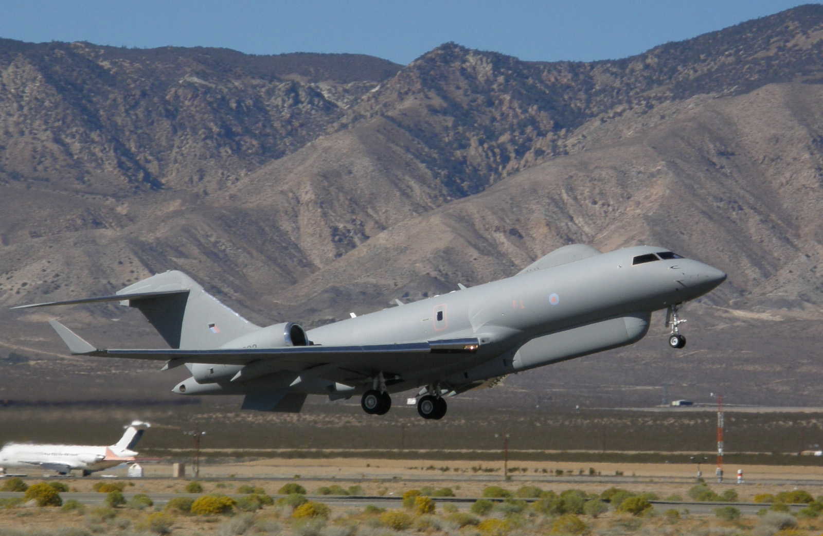 Royal Air Force Sentinel R.1 visits the National Test Pilot School at Mojave